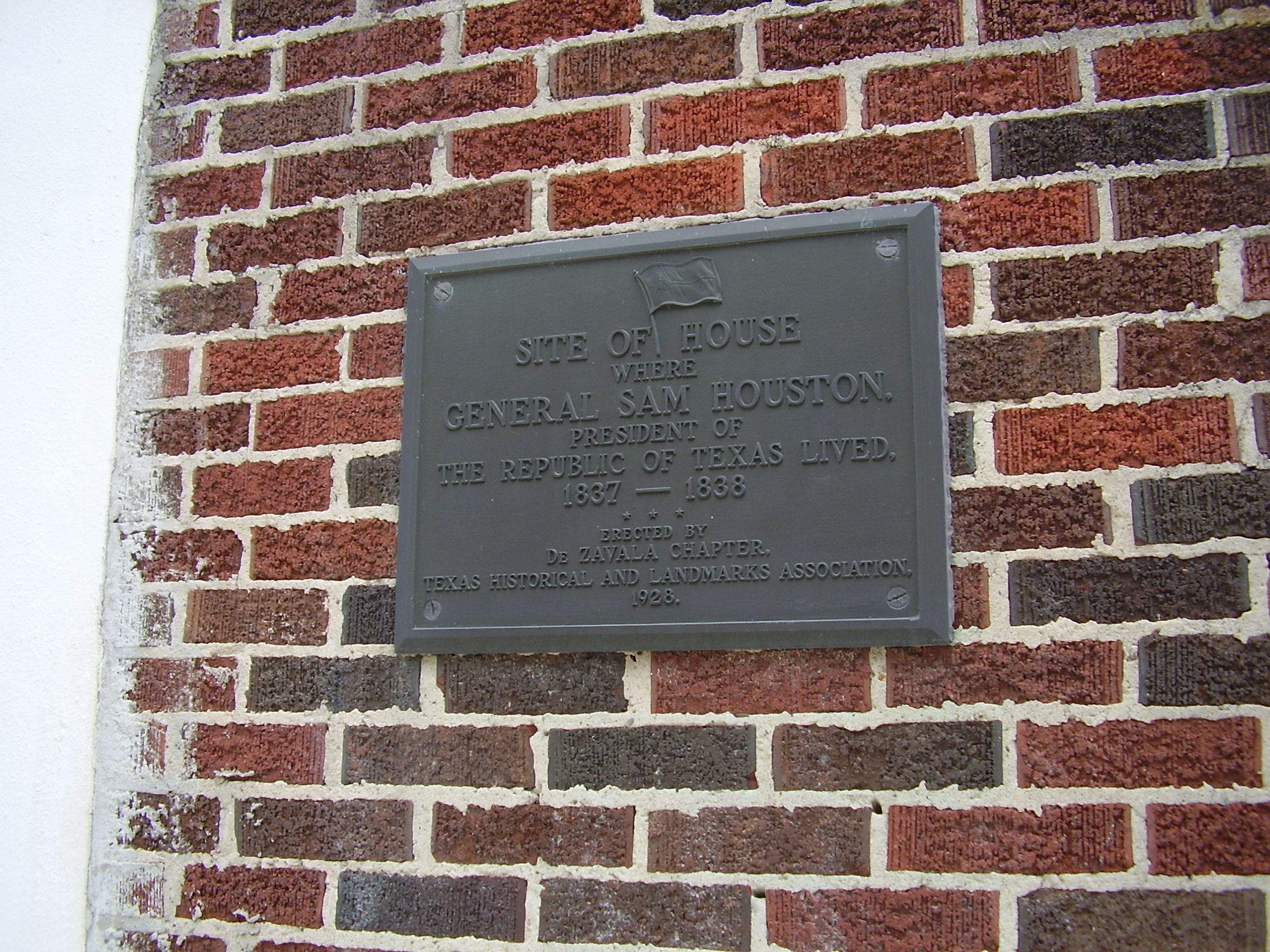 Marker at the Harris County Annex 2, which indicates the site where President of the Republic of Texas Sam Houston lived between 1837 and 1838 - 1302 Preston Street in Downtown Houston